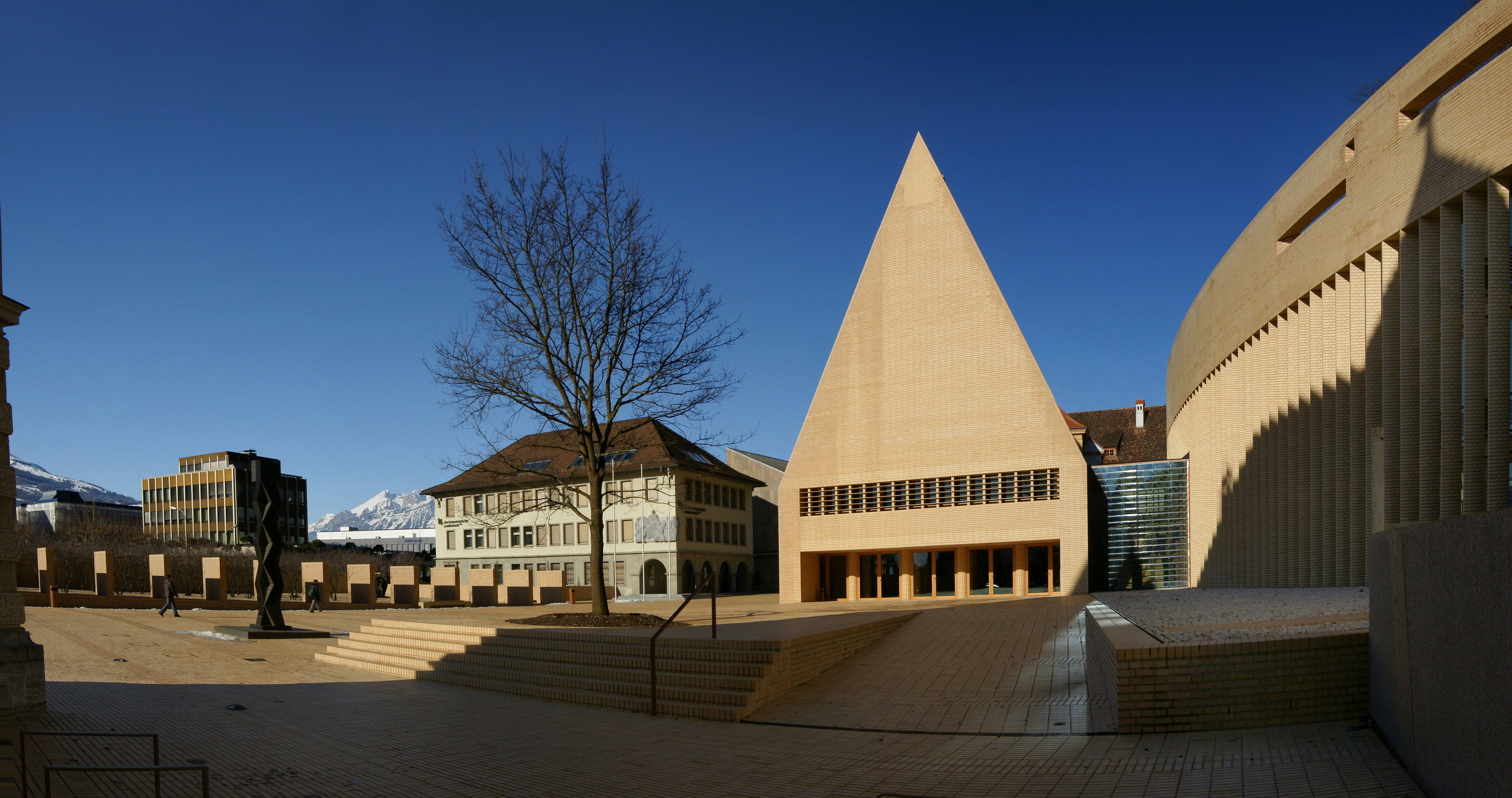 Regierungsgebäude (Government Building), Vaduz, Liechtenstein - Seat of Government and Parliament.